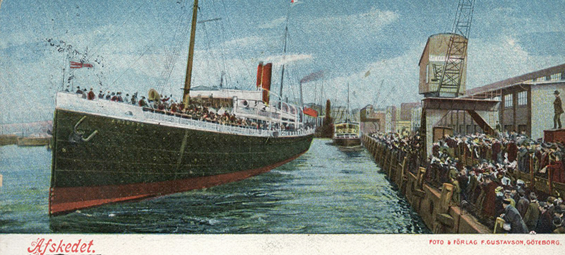 S/S Calypso leaving Gothenburg